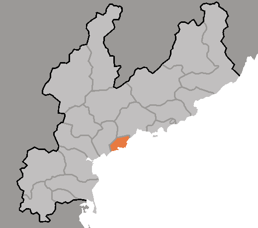 Map of Rakwon, Hamgyong-namdo, DPRK, 2006